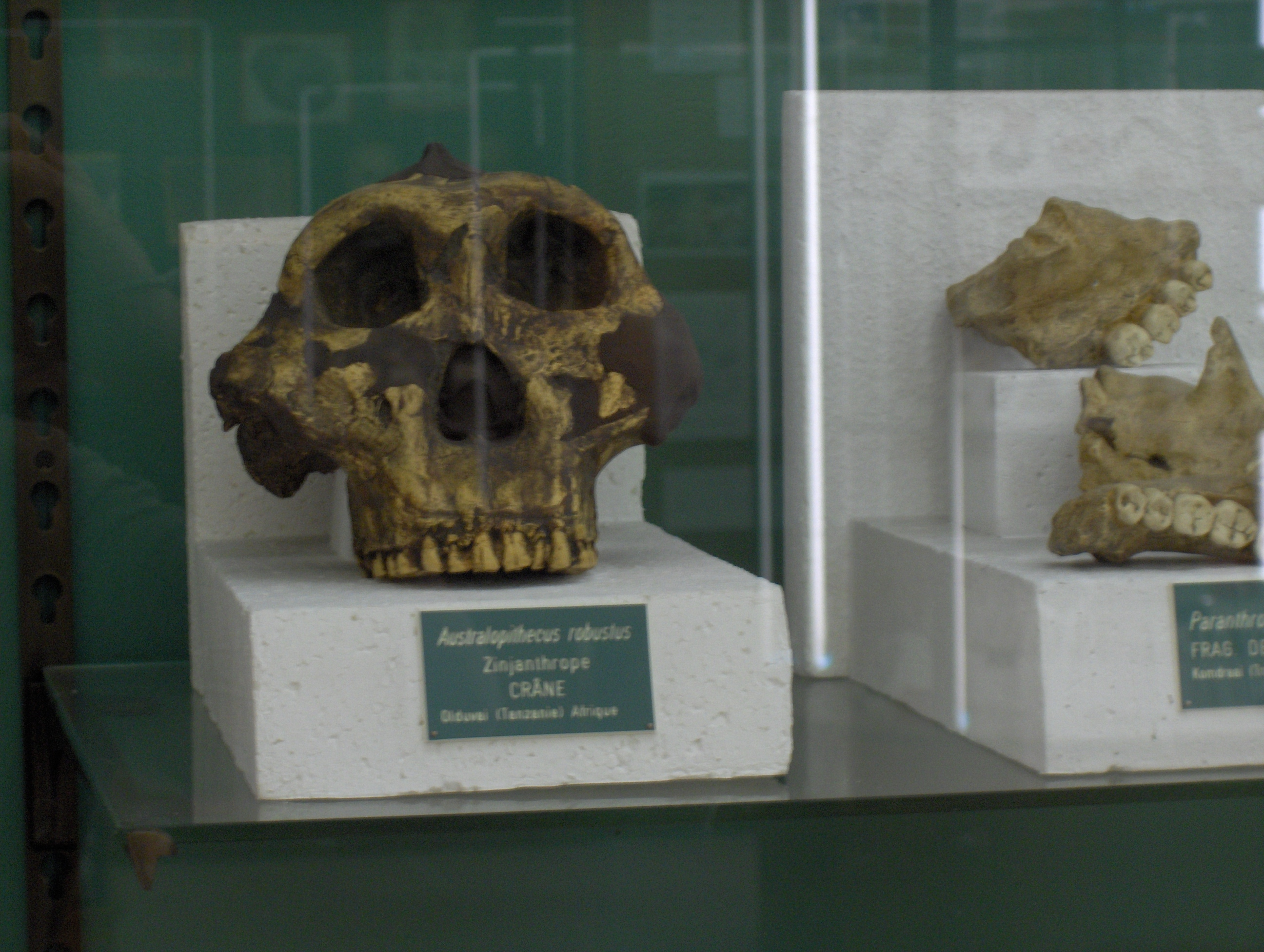 Cast of Paranthropus robustus (Australopithecus robustus); Museum of prehistoric anthropology; Monaco